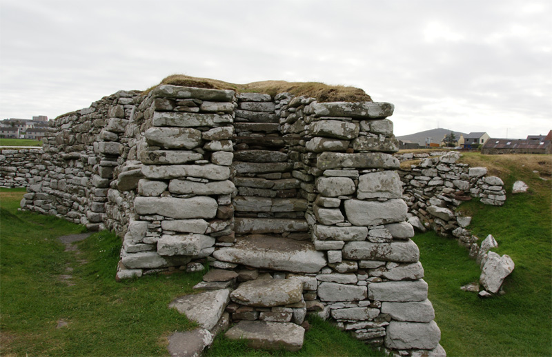 Clickimin Broch, Lerwick, Shetland, Scotland - stairs in blockhouse (from the west)